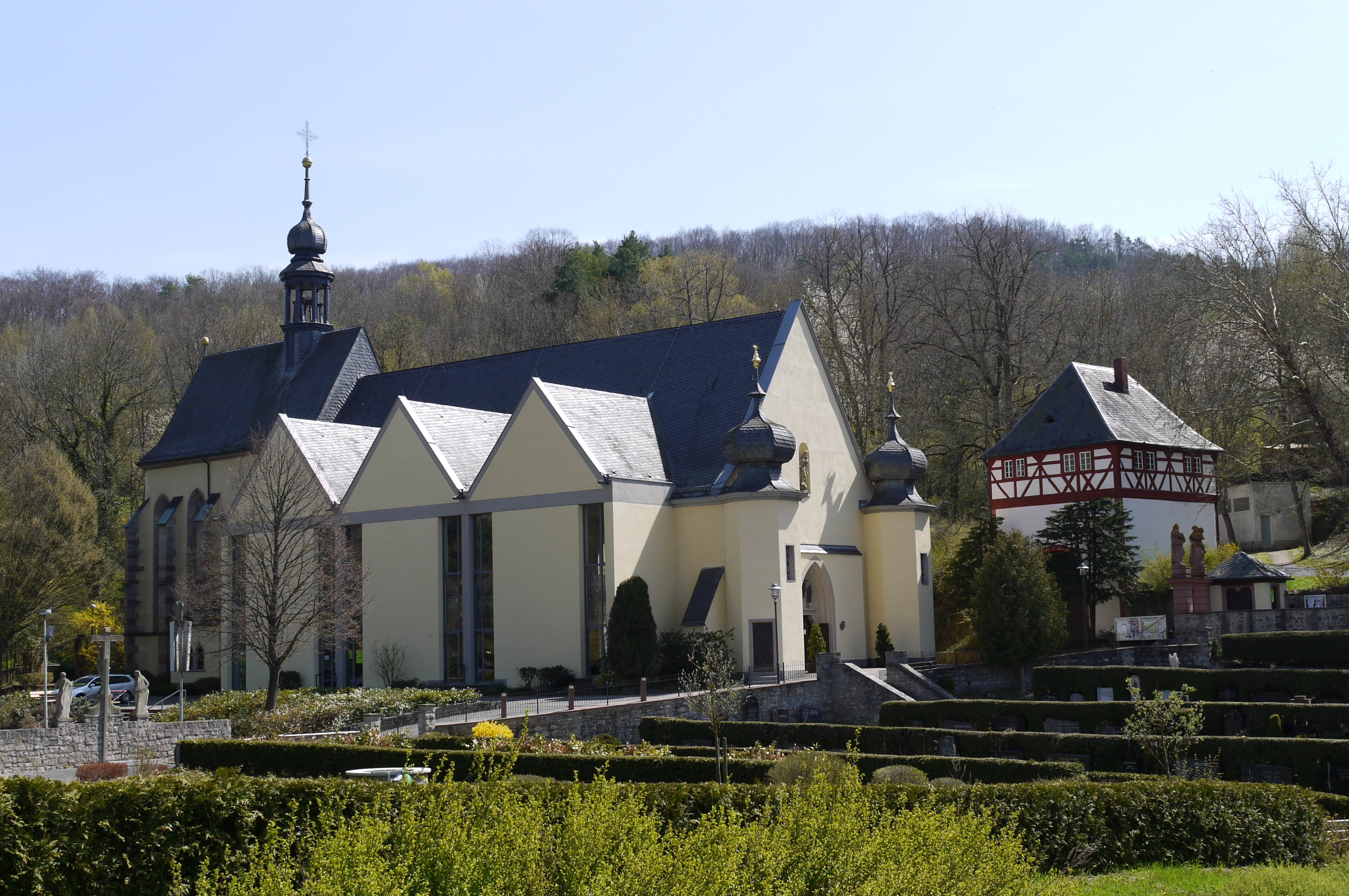 Pilgrimage church in Retzbach